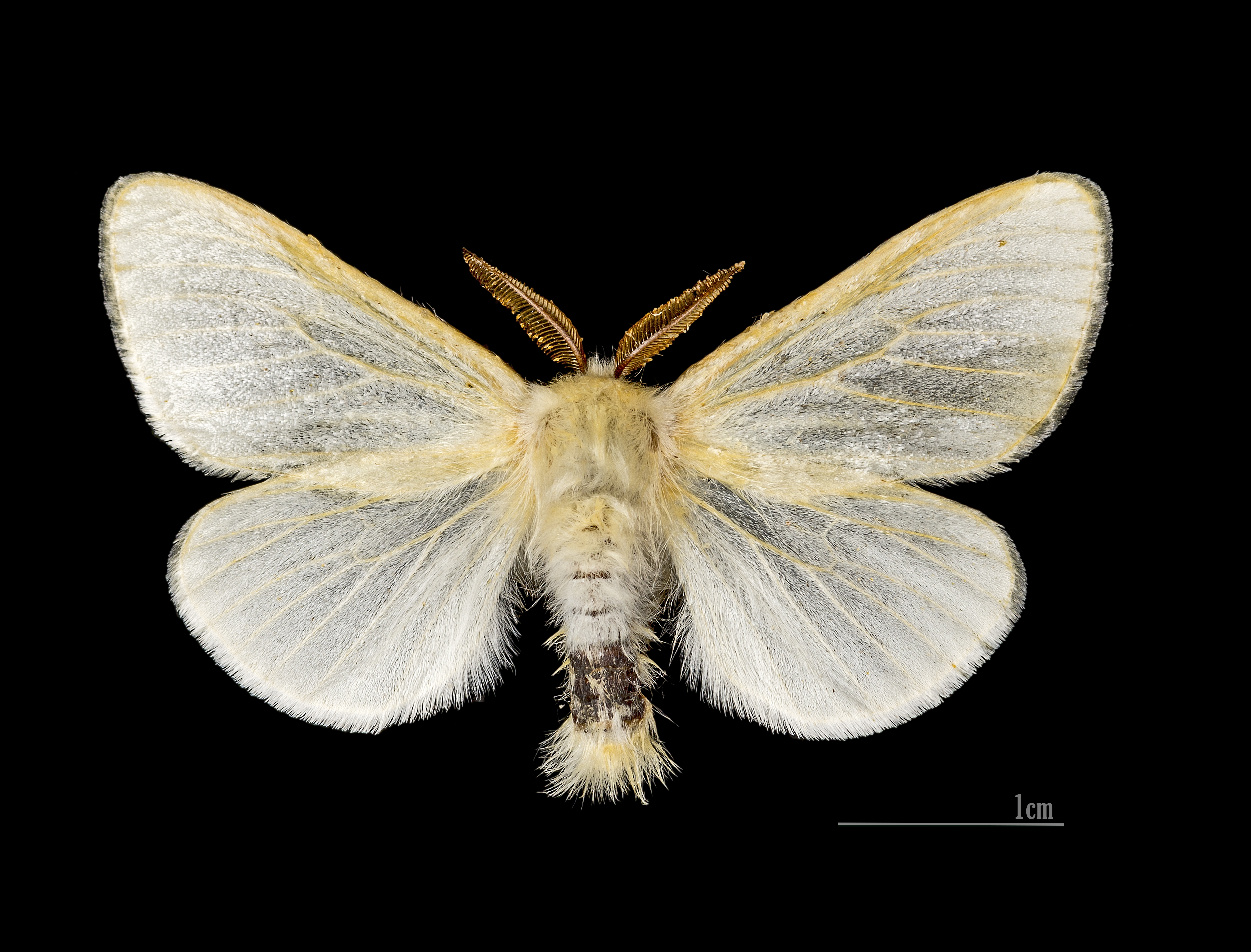 White Satin Moth. Dorsal side